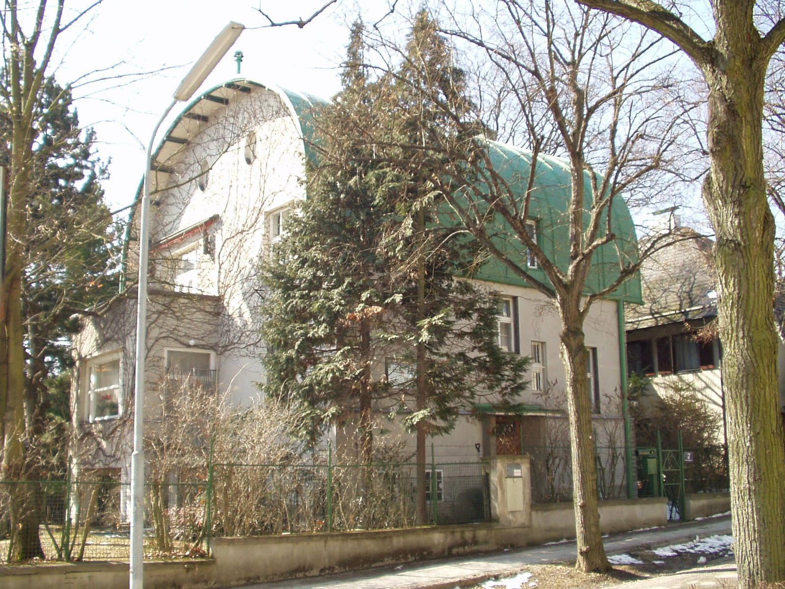 Haus Horner Architect: Adolf Loos Year: 1912 Vienna, Austria digital photograph taken by heardjoin